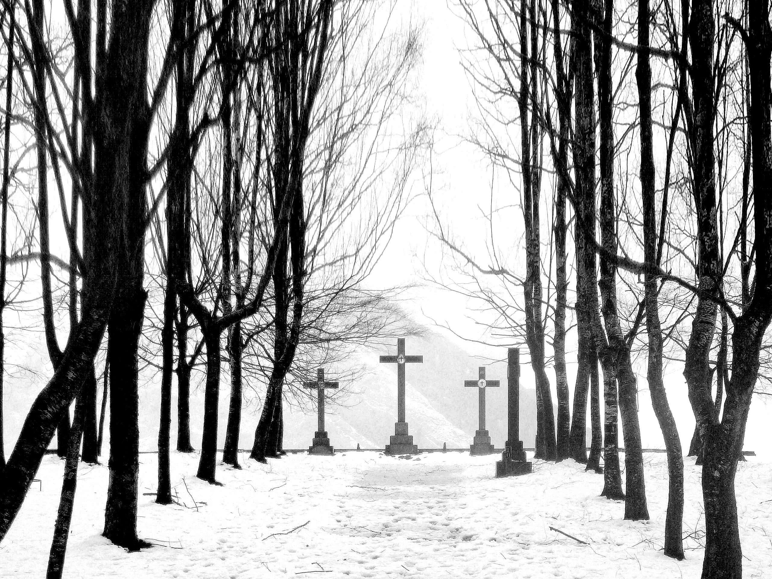 Las Tres Cruces de Urkiola This is a photography of a Site of Community Importance in Spain with the ID: ES2130009. Natura2000 entry, EEA entry